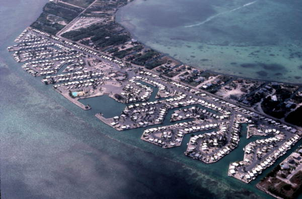 Local call number: DM0796 Title: "Venture Out" Resort: Cudjoe Key, Florida Date: December 1983 Physical descrip: 1 slide - col. Series Title: Dale M. McDonald Collection Repository: State Library and Archives of Florida, 500 S. Bronough St., Tallahassee, FL 32399-0250 USA. Contact: 850.245.6700. Persistent URL